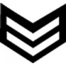 This is the sleeve insignia for an apprentice cadet in the USNLCC.